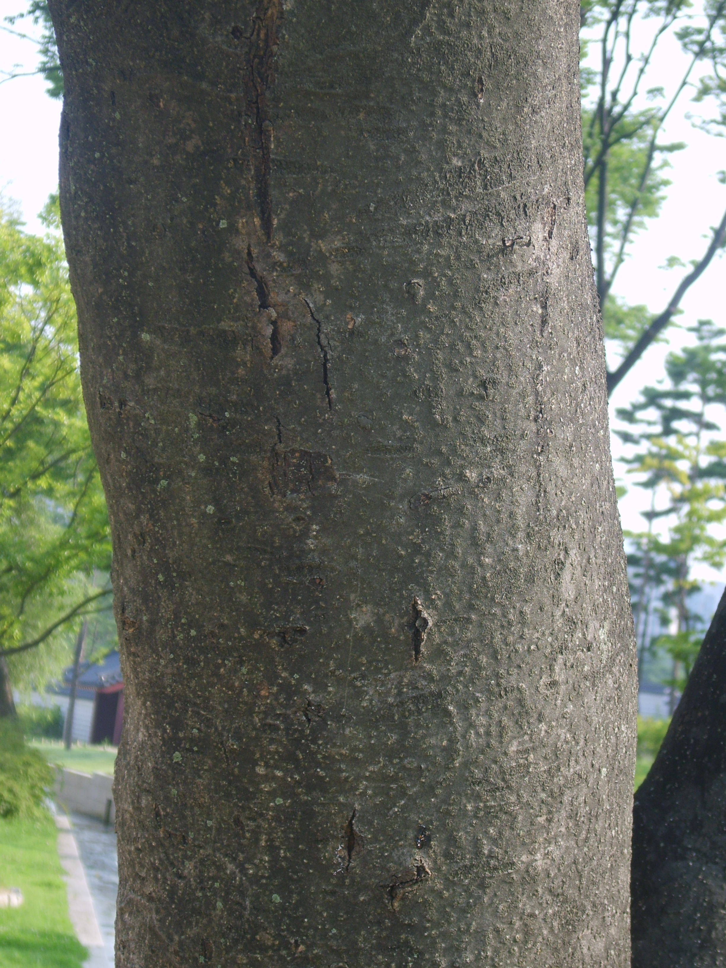 Tetradium daniellii